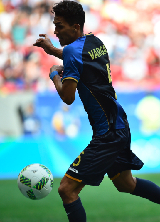 Allans Vargas of Honduras This file has been extracted from another file: Argentina x Honduras - Futebol masculino - Olimpíadas Rio 2016 (28611940950).jpg